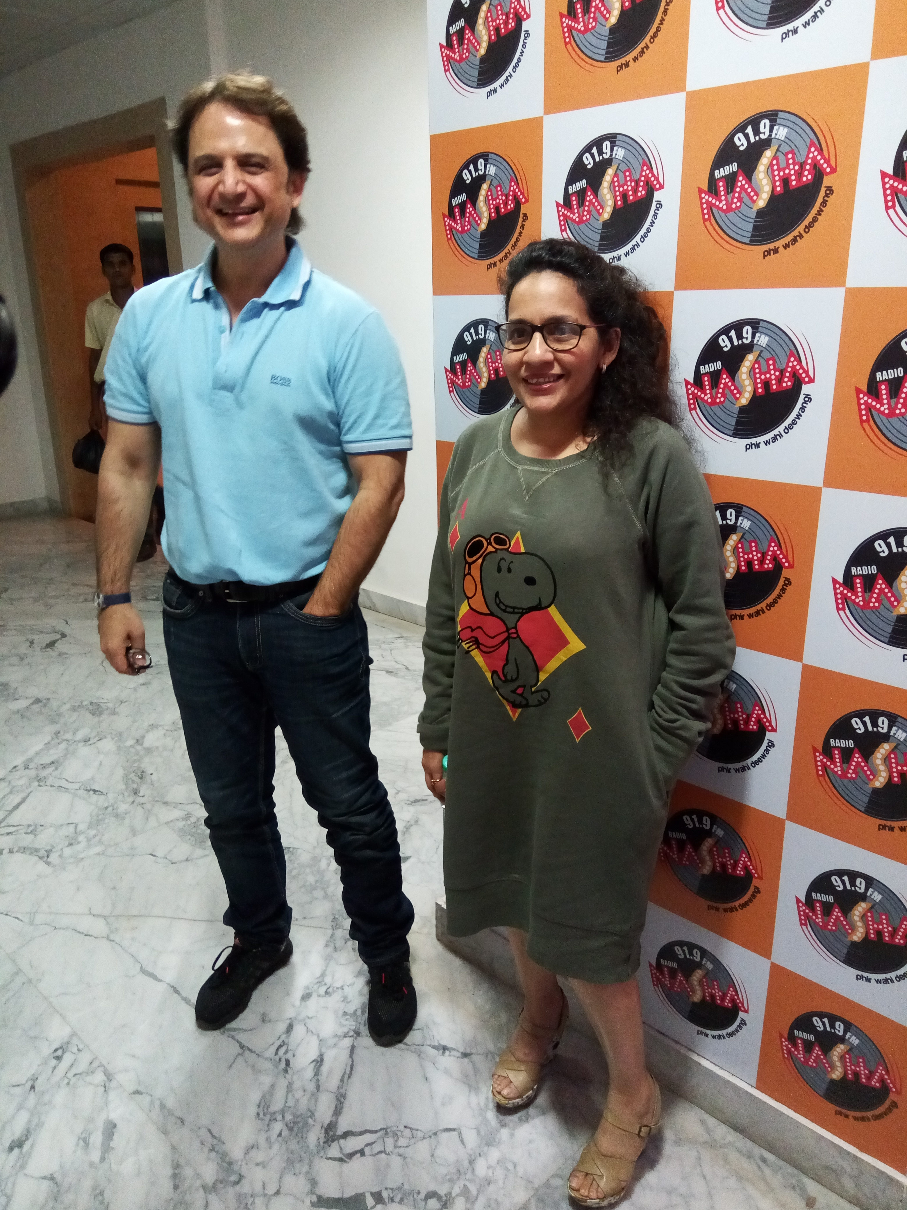 Vinay Sapru & Radhika Rao at Radio Nasha